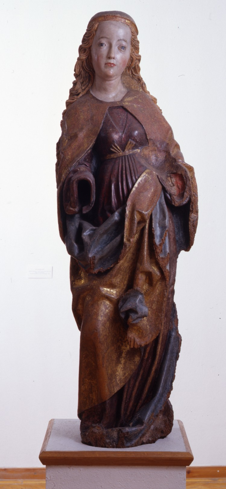 Madona of Litoměřice, cca 1520